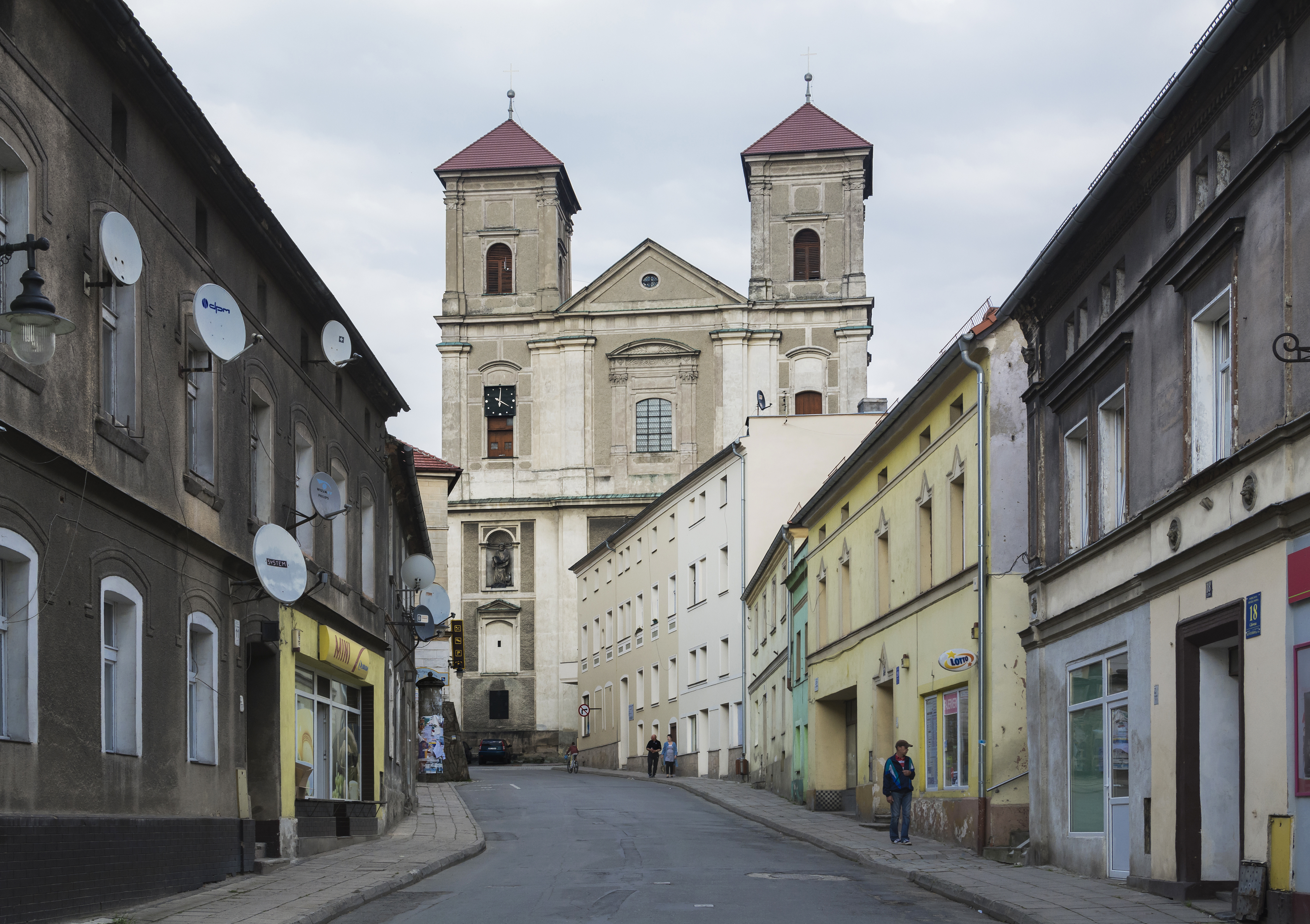 Główna Street in Bardo